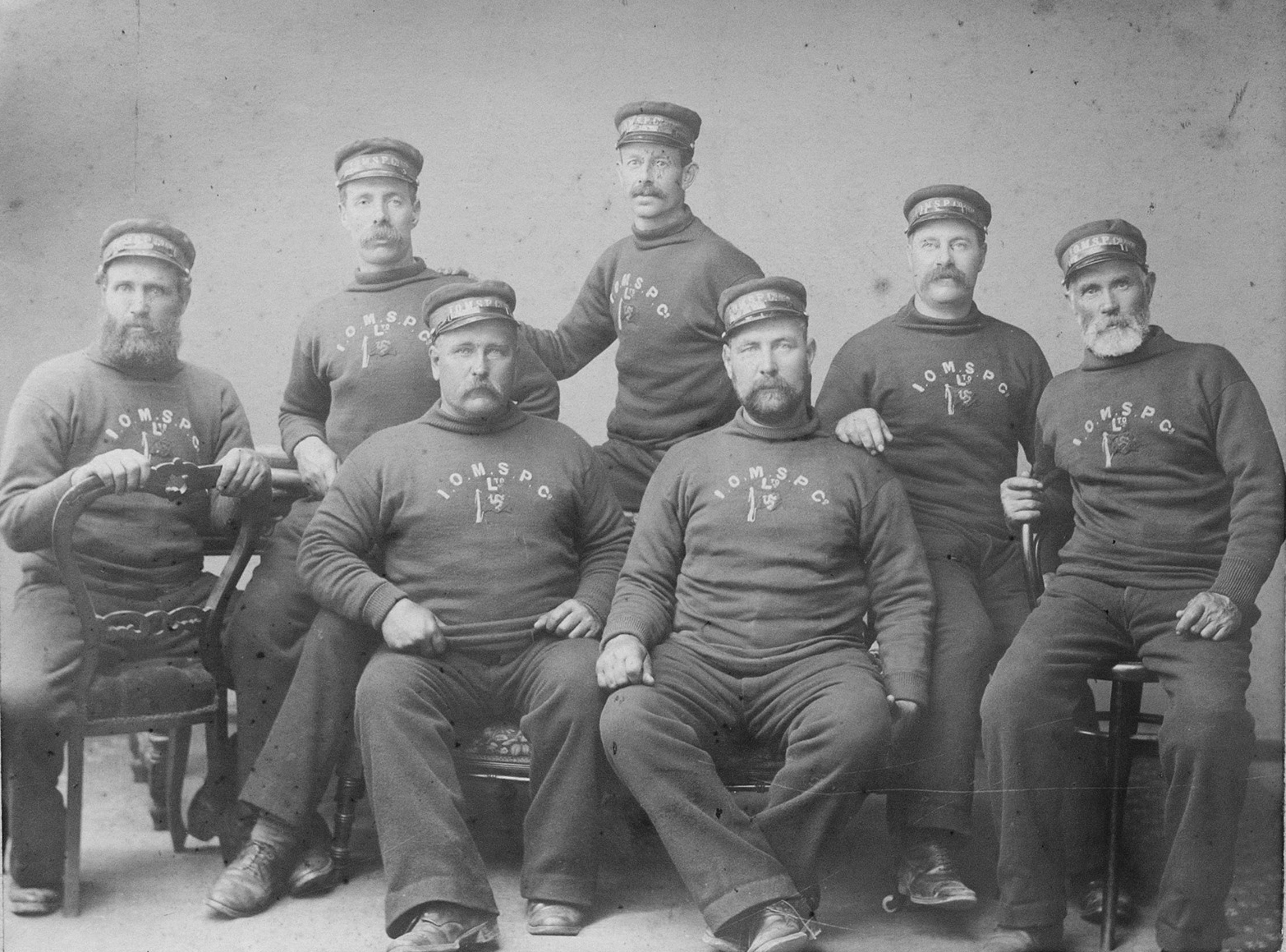 Isle of Man Steam Packet Company landsmen, pictured 1900. Left to right (back row) Bob Howe, Willie Higgins, (?) Kelly, John Higgins, Paul Bridson. Left to right (front row) David 'Dawsey' Kewley, 'Bunty' Cain.